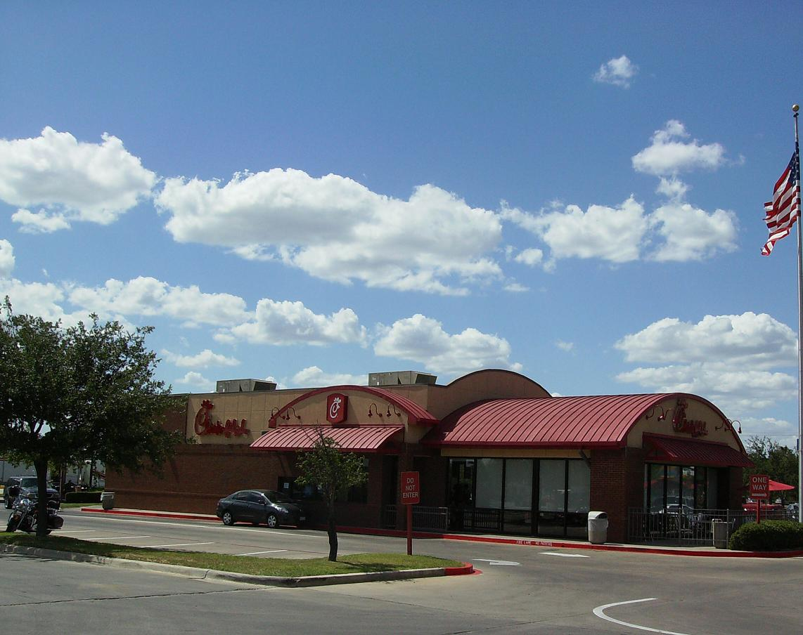 Chick-Fil-A restaurant in Laredo, Texas